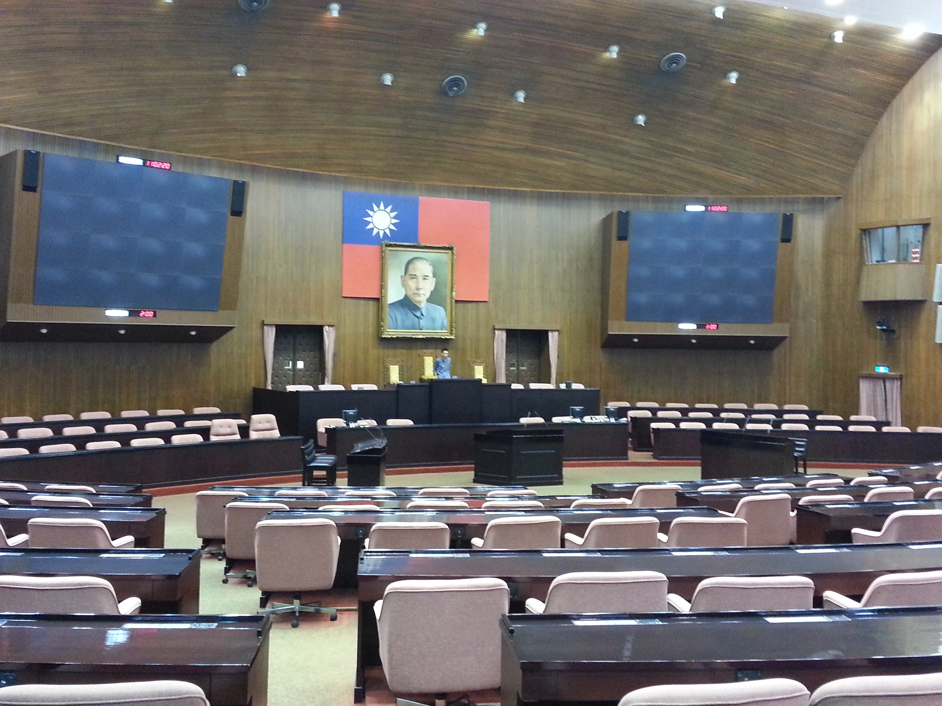 Legislative Yuan of the Republic of China in Taipei, Taiwan.